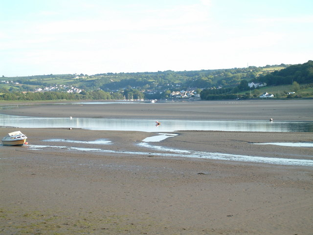 St Dogmaels from Gwbert across the River Teifi.